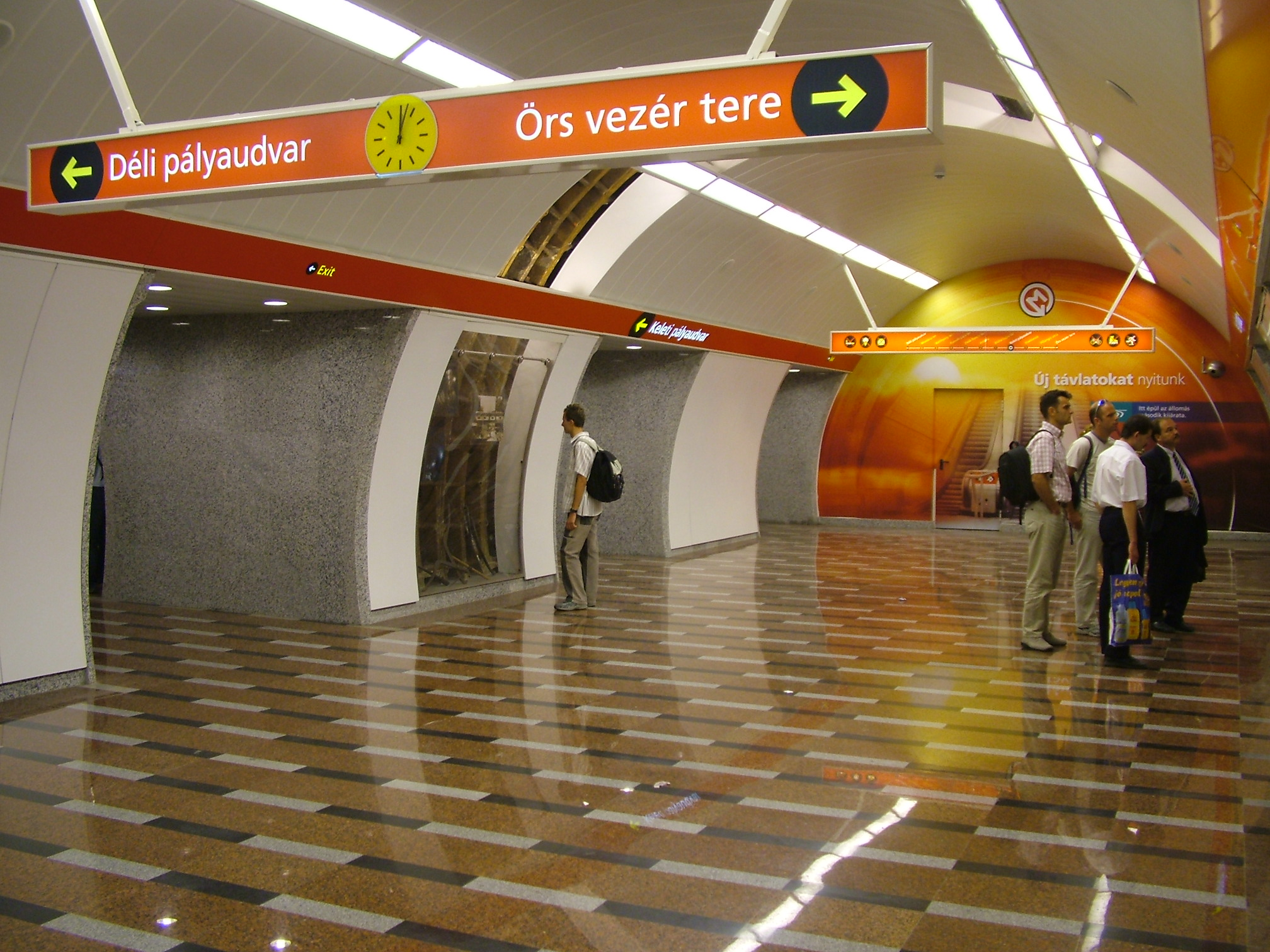 Eastern Railway Station on the Budapest metro line 2See other pictures: metros.hu